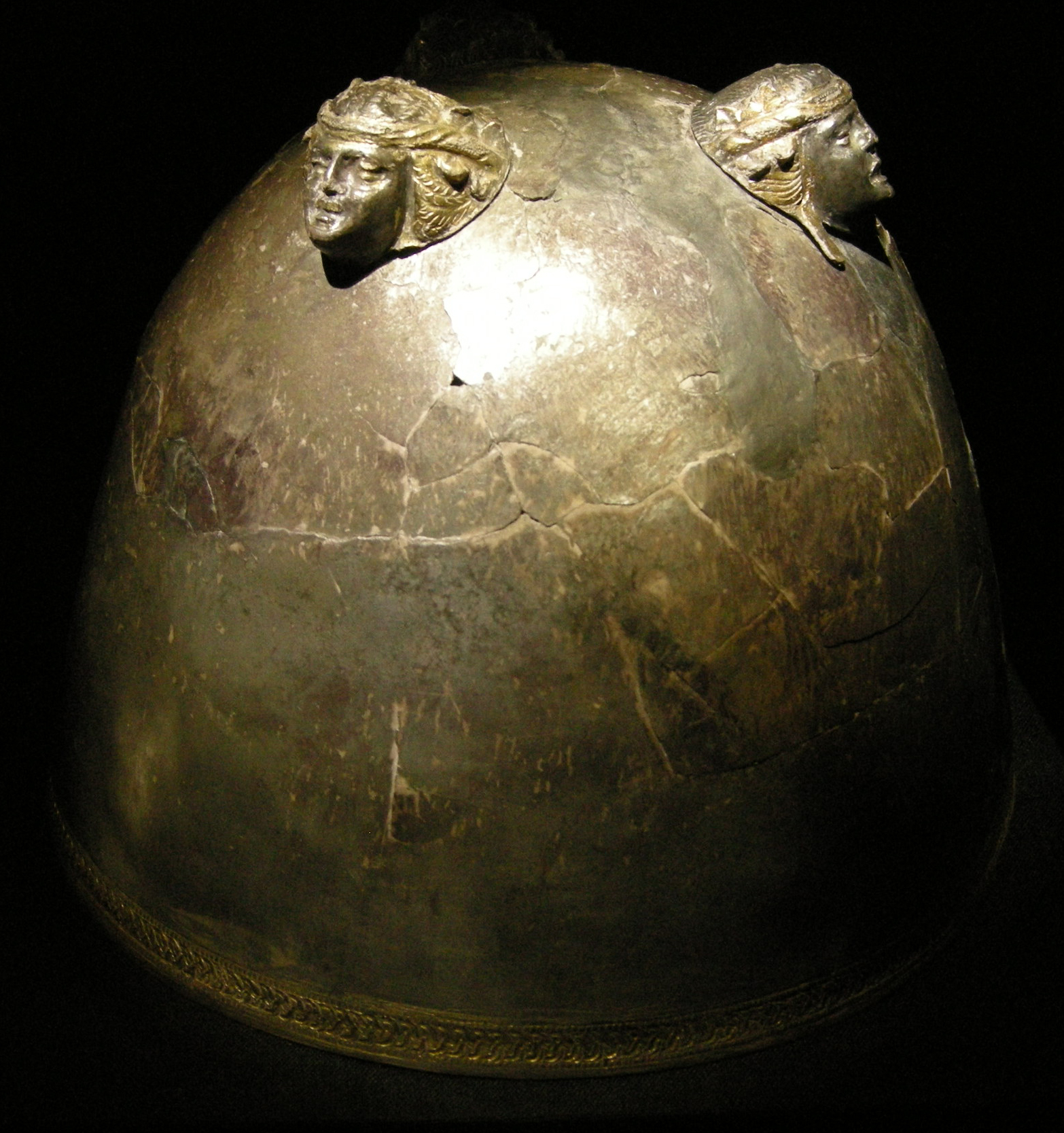 read filename please (it)